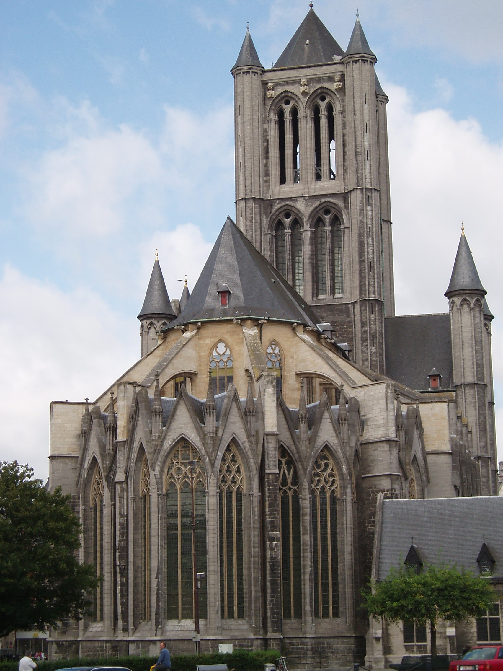 Sint-Niklaas Church in Ghent in East-Flanders, Belgium, seen from the East.